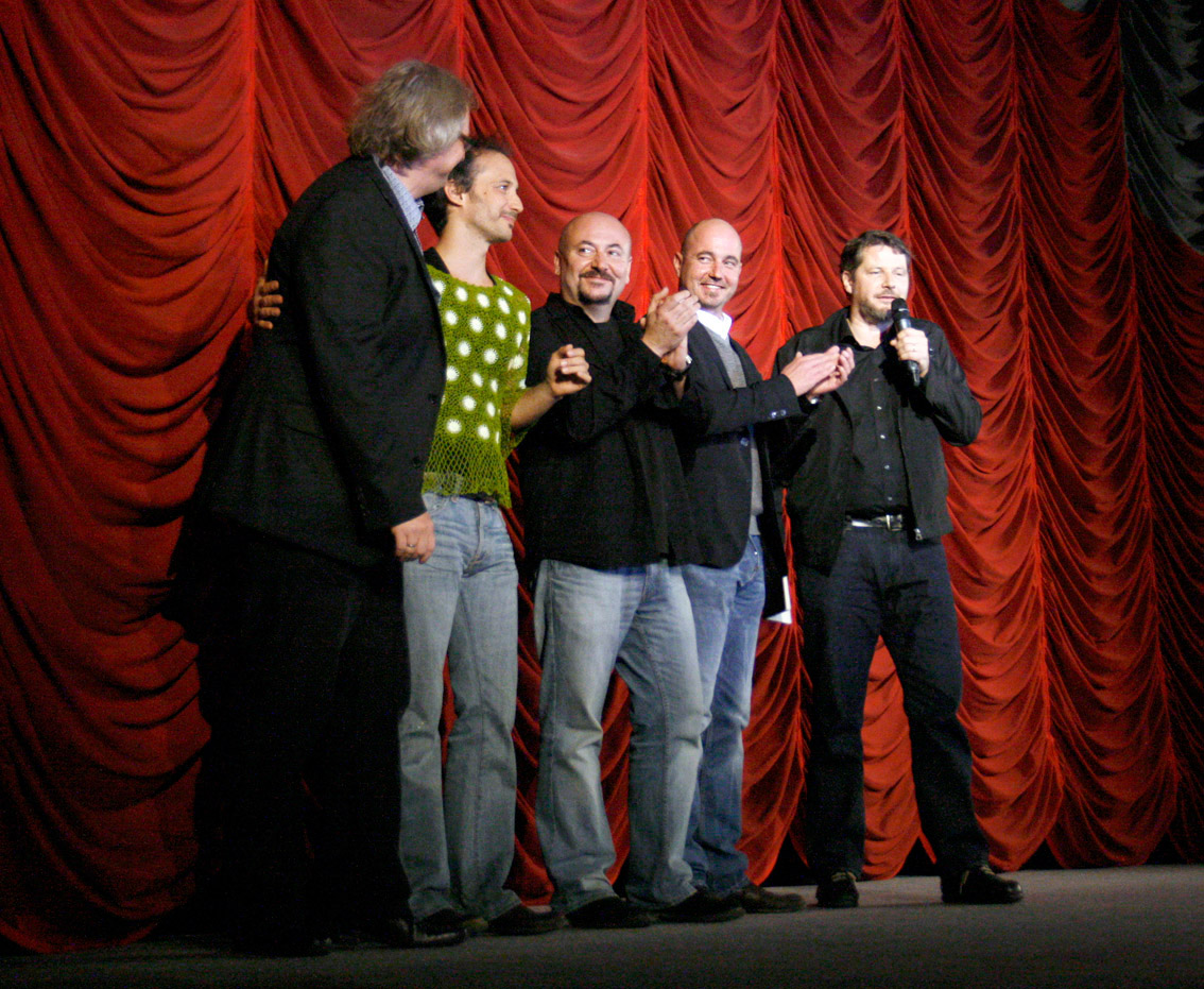 Danny Krausz, Michael Ostrowski, Uwe Lubrich, Alfred Schwarzenberger and Andreas Prochaska at the premiere of the movie Die unabsichtliche Entführung der Frau Elfriede Ott at the Gartenbaukino in Vienna.